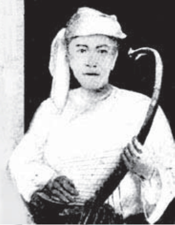 U Maung Mayng Gyi Dewainda, the last court harpist of Konbaung dynasty The depicted person died in 1933, hence the photograph must have been made before 1968.